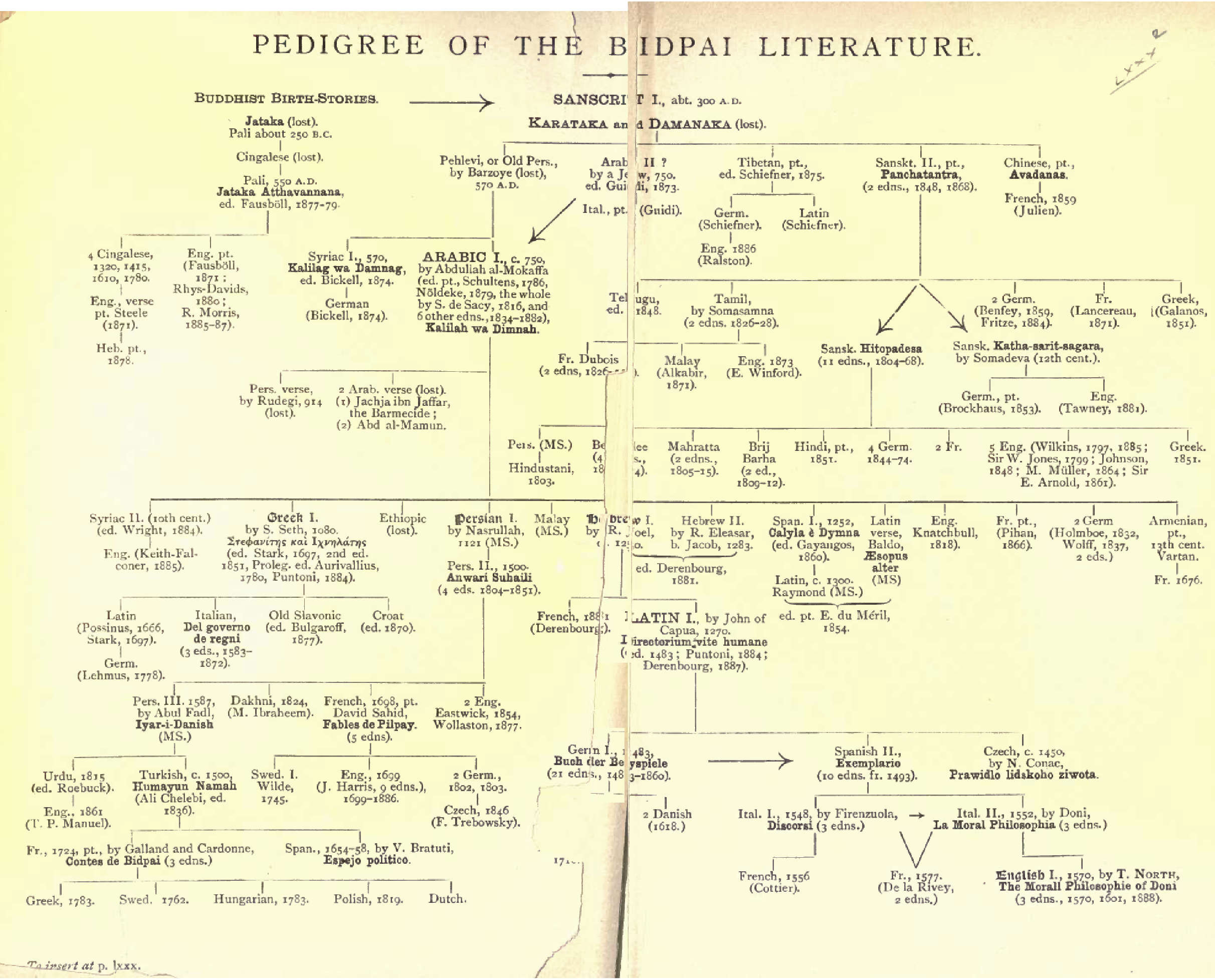 Pedigree of the Bidpai Literature (Pancatantra / Hitopadesa / Kalilah and Dimnah)